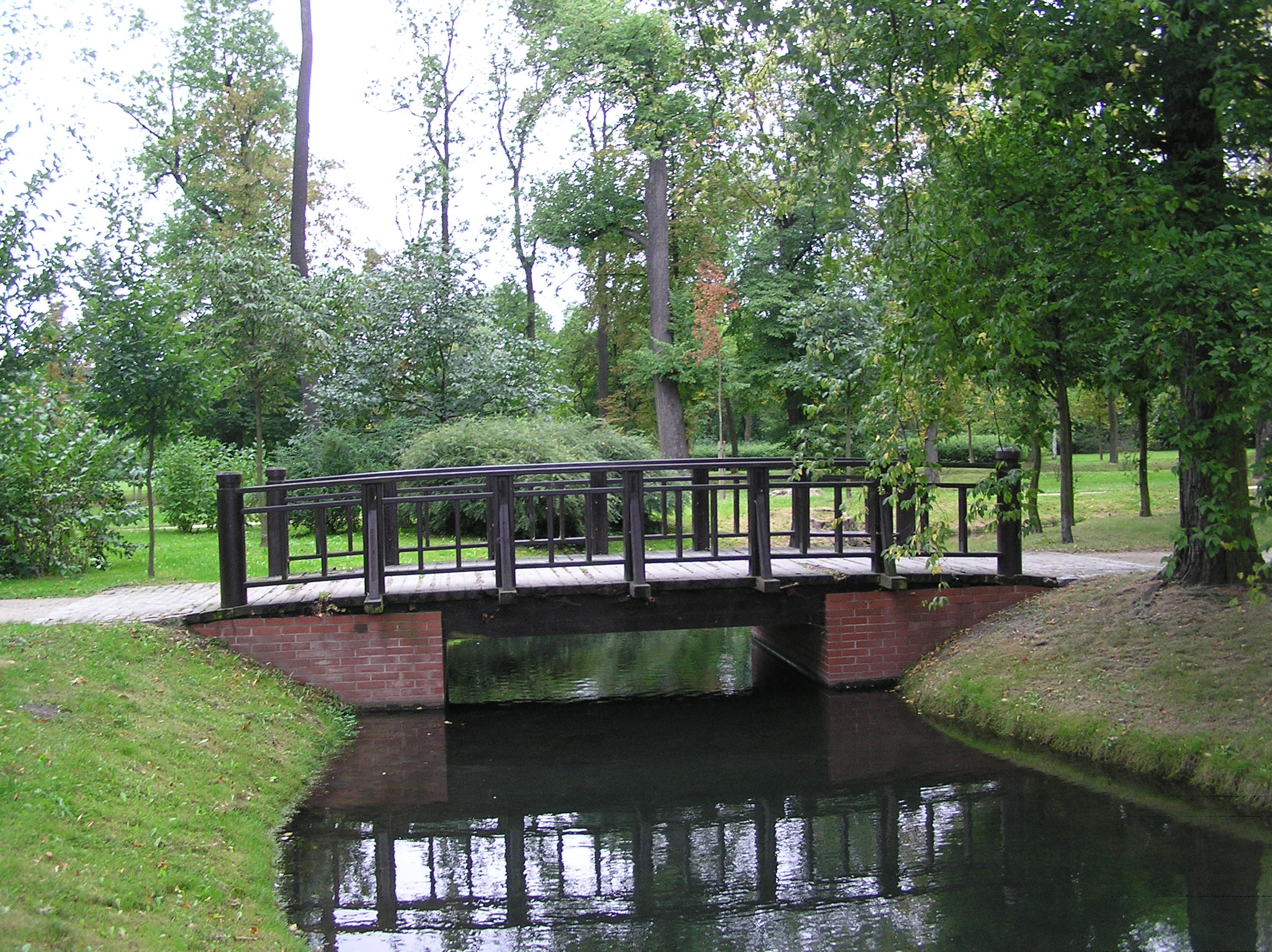 Poland, Wrocław, Brochowski Park